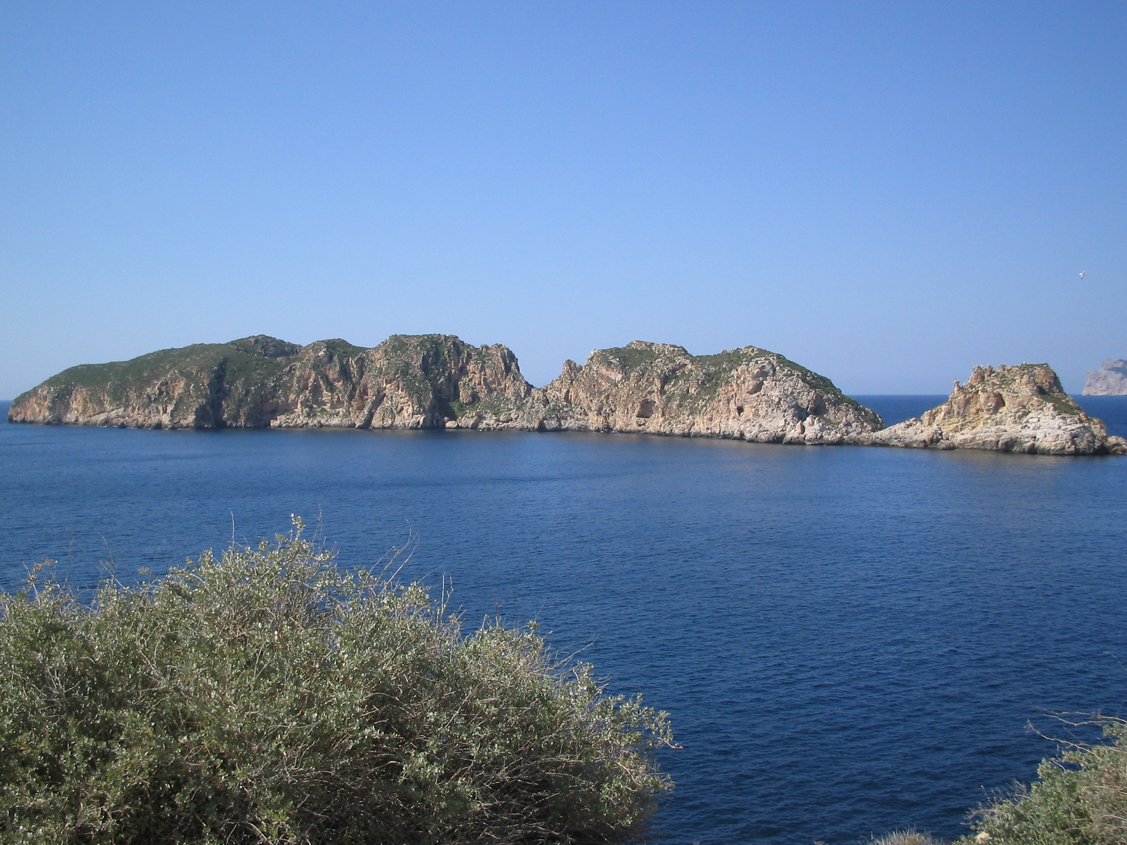 Malgrat Islands in Mallorca, Spain.